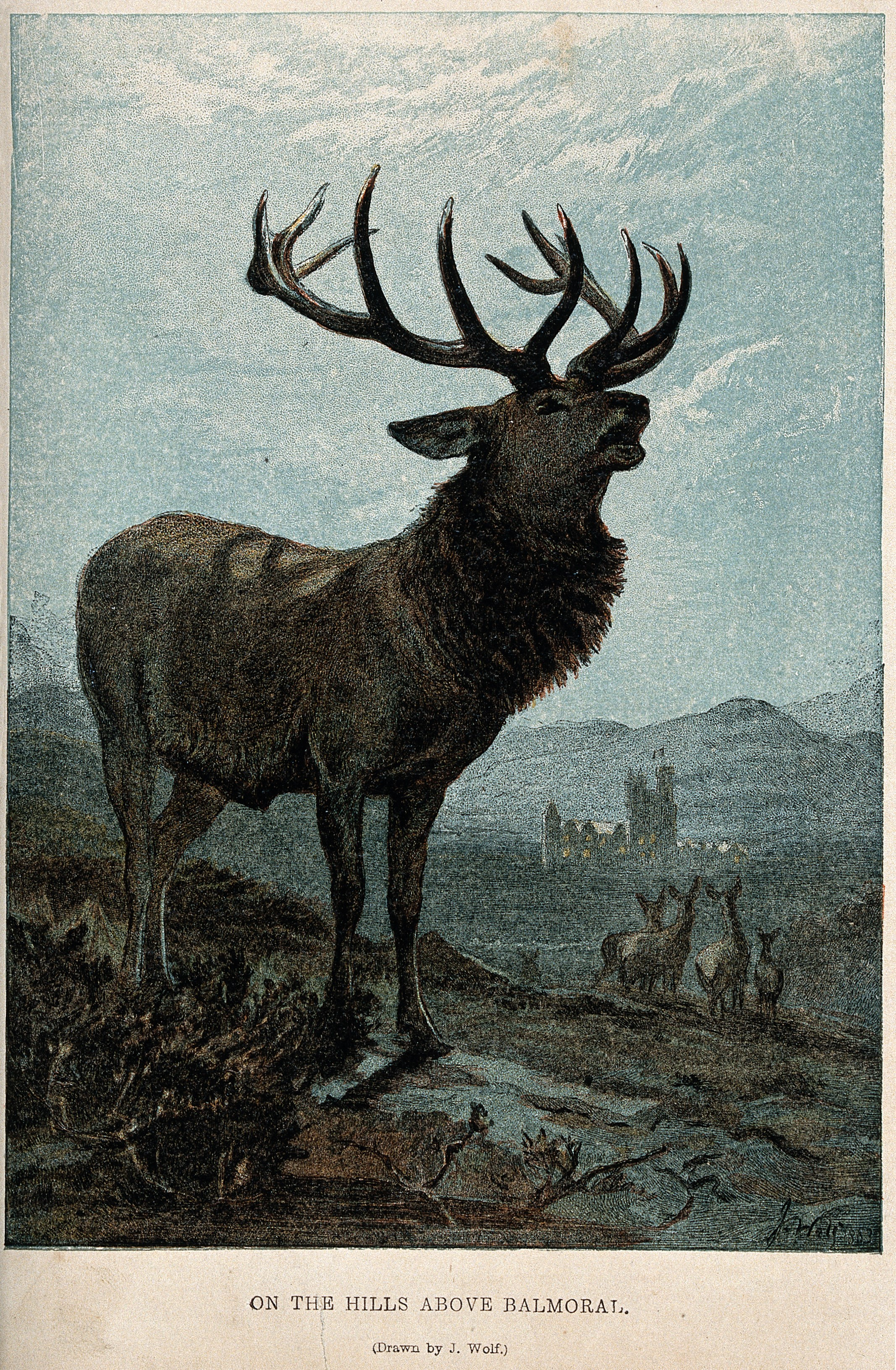 A red deer stag rutting on a hill by Balmoral Castle. Colour reproduction of a wood engraving after J Wolf, 1863. Iconographic Collections Keywords: Wolf